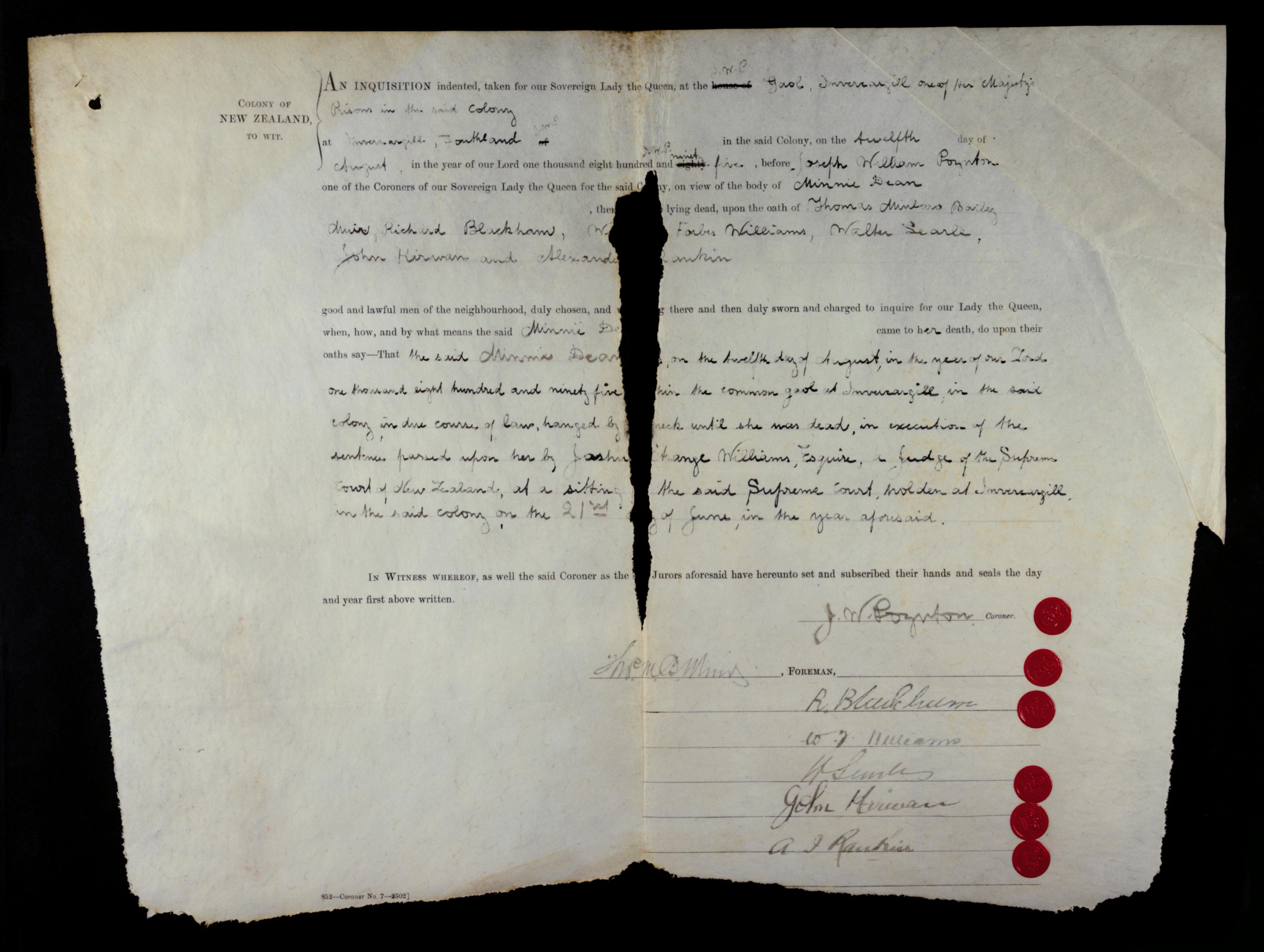 On 12 August 1895 Minnie Dean was hanged at Invercargill gaol after being found guilty of infanticide, becoming the only woman ever to have been executed in New Zealand. Scottish-born Dean lived in Winton, Southland, with her husband Charles Dean, where she looked after unwanted children for payment. Known as ‘baby-farming’, this practice reflected the lack of socially-acceptable alternatives for women having unwanted babies, and Dean took in many children throughout the 1880s. However several of the children died while in her care, prompting police surveillance of her activities. In May 1895 Dean was seen boarding a train carrying a young baby and a hat-box, and disembarking later carrying only the hat-box. Police later unearthed the freshly buried bodies of two babies and the skeleton of an older boy in Dean's garden. A coroner’s inquest of one of the dead babies, Dorothy Edith Carter, declared that she had "met her death… through poison administered by Minnie Dean." Dean was subsequently tried for infanticide on 18 June, and despite the defence arguing Carter's death was accidental, on 21 June Dean was found guilty of murder and executed a few weeks later. The execution of a woman was an unusual course of action to be taken by the New Zealand Supreme Court. Before Dean's trial and execution, three other women had been tried and sentenced to death, all in relation to child murder, but in each case those sentences were commuted to life imprisonment. Public interest in the case was high, with souvenirs of the hat-box notoriously being sold outside the courthouse during her trial. The story of Minnie Dean entered into New Zealand folklore, and the case lead to major advances in New Zealand child welfare legislation, with the passing of the Infant Life Protection Act 1893 and Infant Protection Act 1896. Archives Ref: J1 1895/917